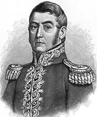 José de San Martín, engraving